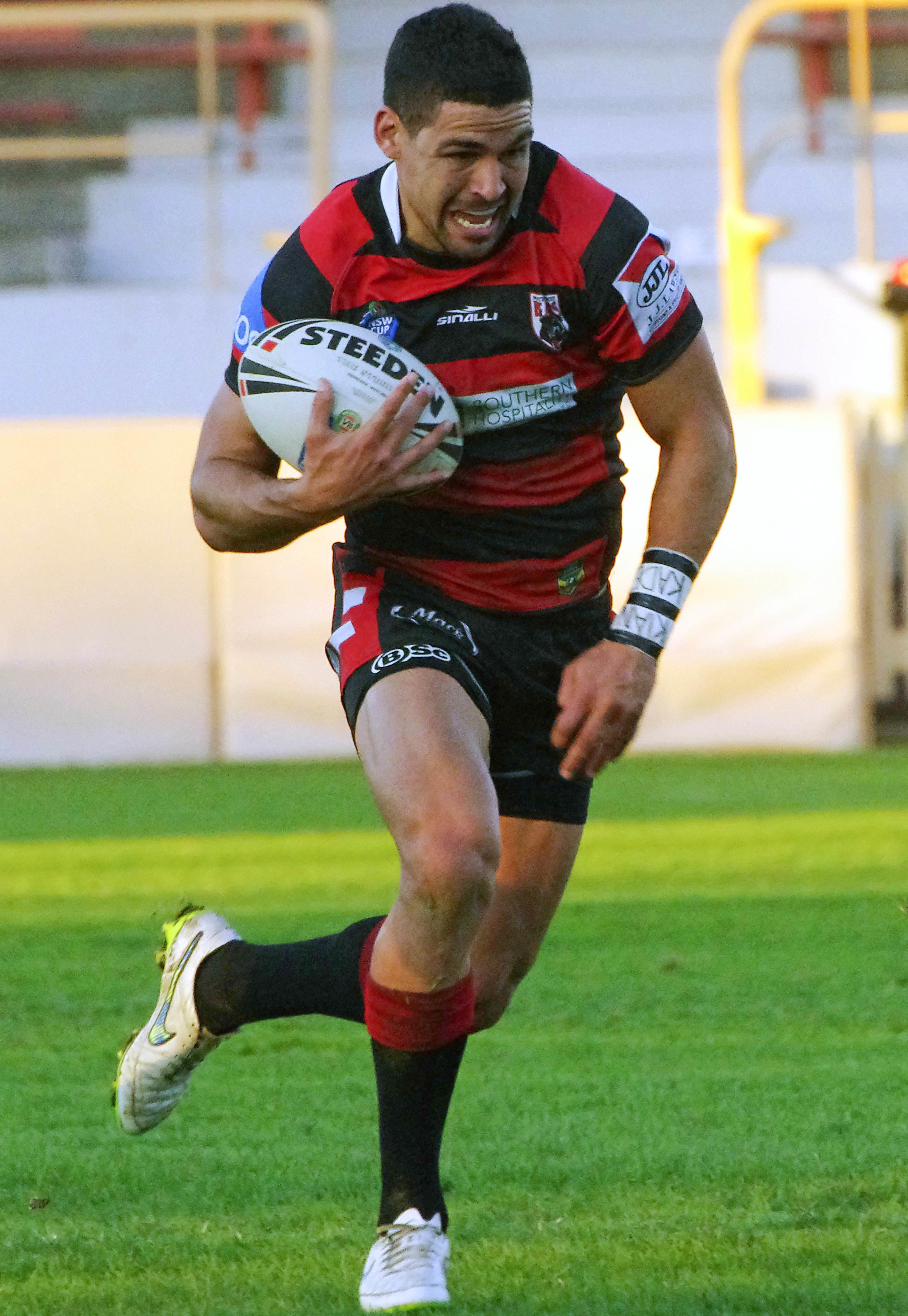 Cody Walker